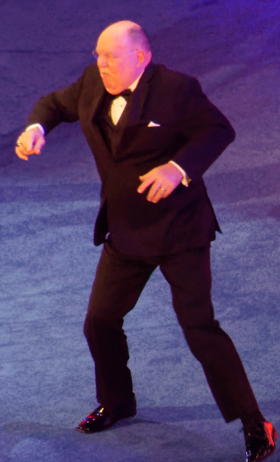 Le WWE Hall of Fame (anciennement WWF Hall of Fame) est une institution qui honore d'anciens employes de la World Wrestling Entertainment (anciennement World Wrestling Federation) et d'autres figures qui ont contribue au catch et au divertissement sportif en general. The Fabulous Freebrids (Michael Hayes, Terry Gordy, Buddy Roberts & Jimmy Garvin) Introduce By : Kofi Kingston, Big E Langston & Xavier Woods Deux fois WCW World Tag Team Championship, deux fois WCW United States Tag Team Championship et une fois WCW 6-Man Tag Team Championship.